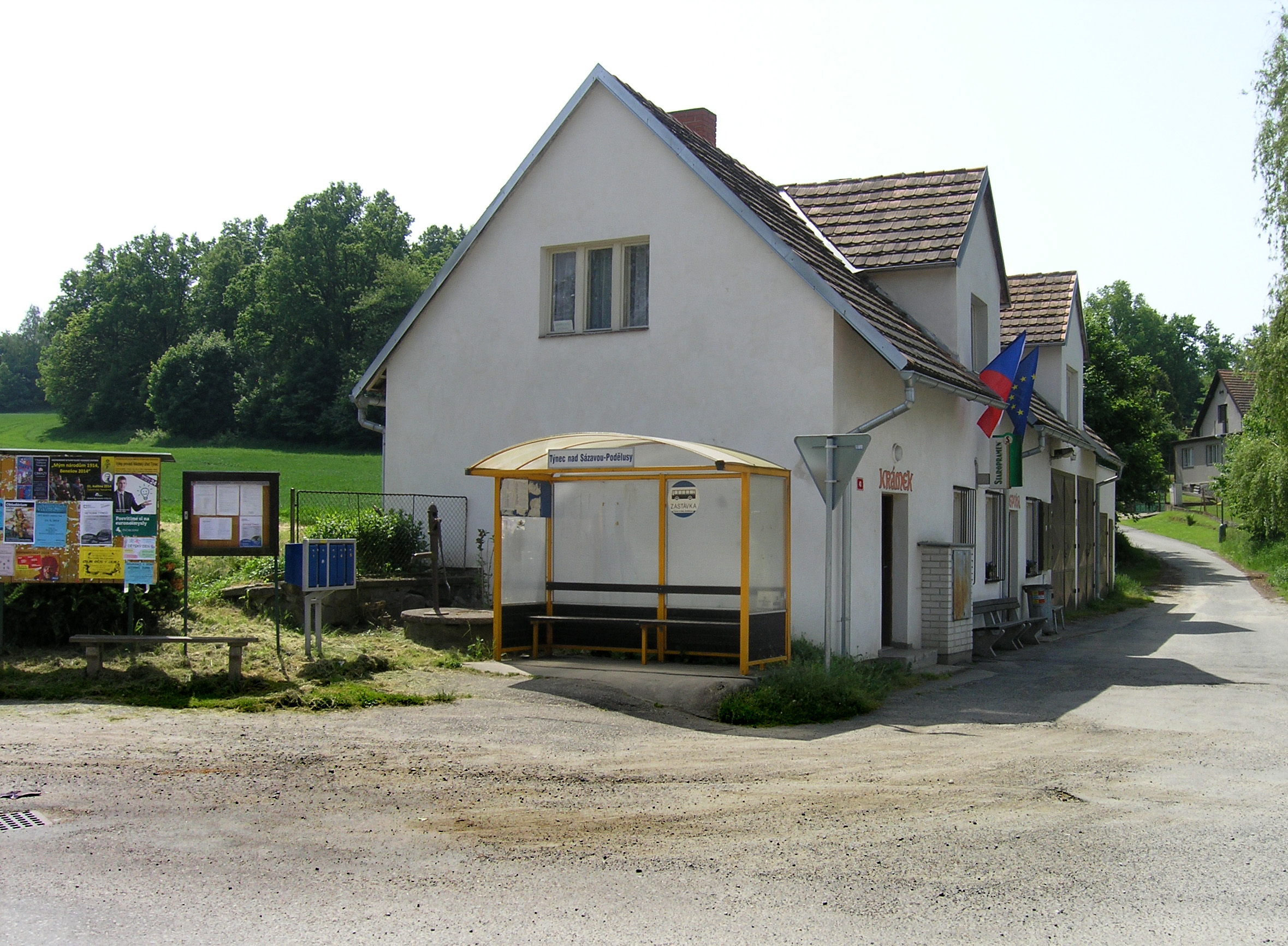 Restaurant in Podělusy, part of Týnec nad Sázavou, Czech Republic